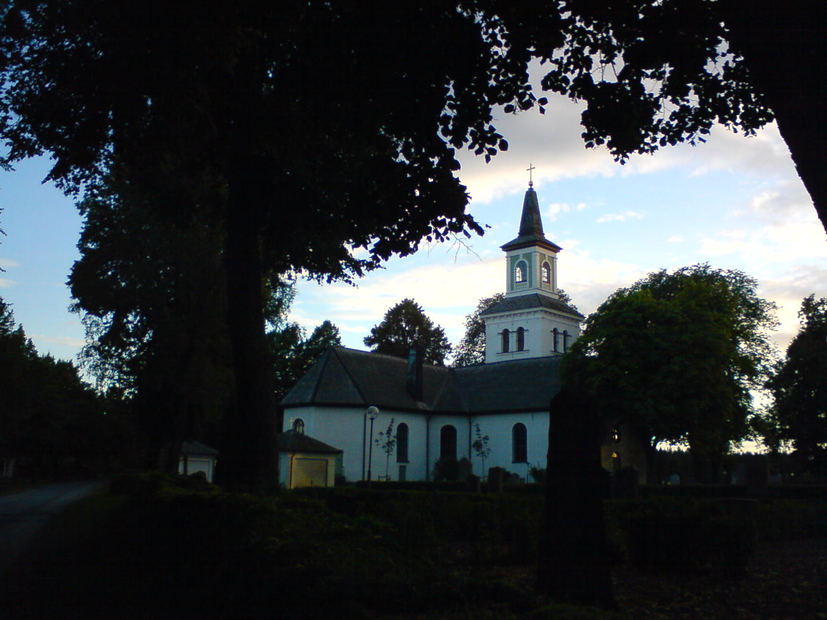 Parish church of Grava parish from the south east Grava församlingskyrka från sydost